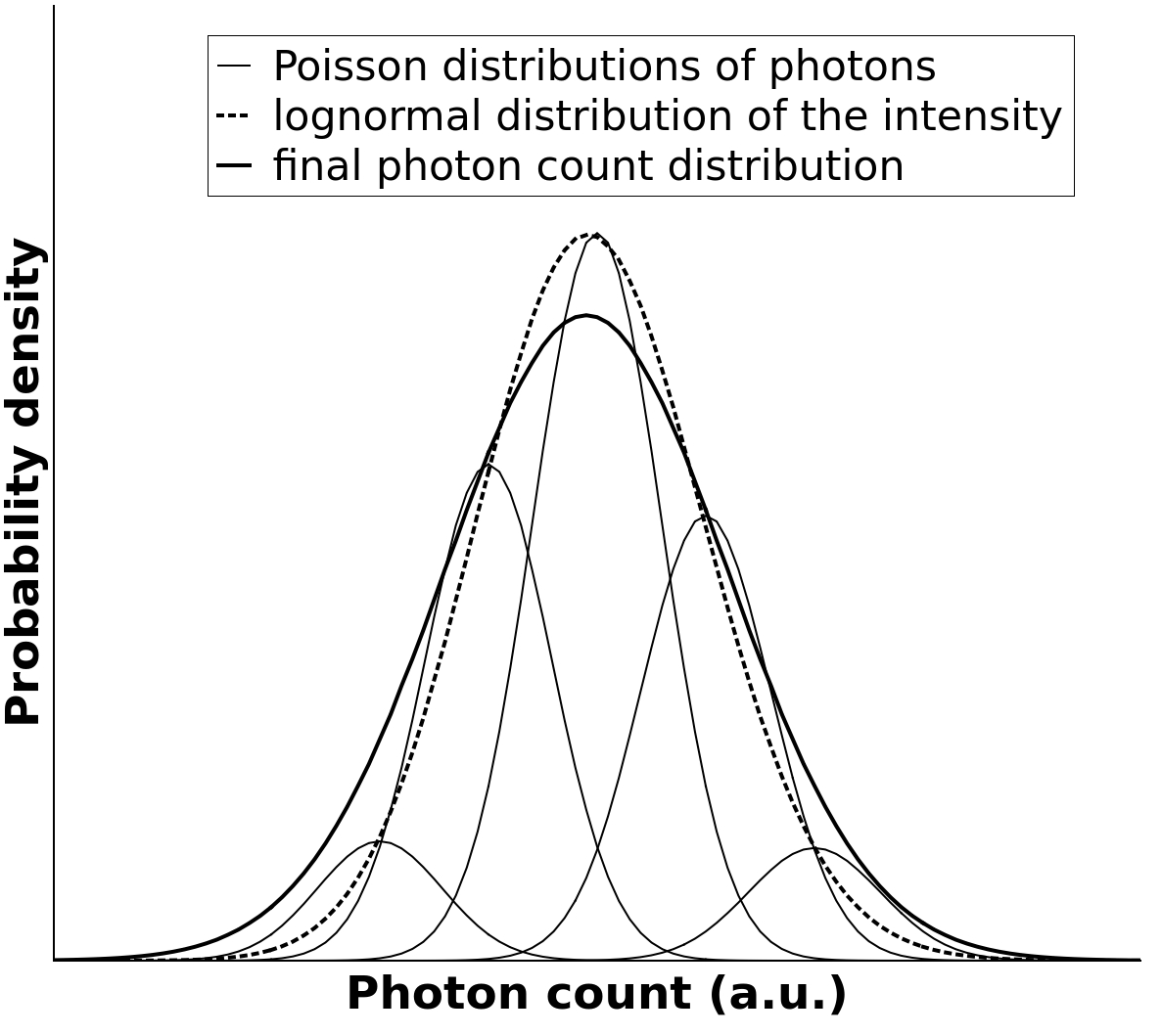 Distribution of photon count propability. At high photon numbers, the final photon count distribution is following normal distribution. The intensity (attenuation) calculated from these photon counts is following lognormal distribution. The estimation of these distributions is necessary for the calculation of expected attenuation from measured photon counts.